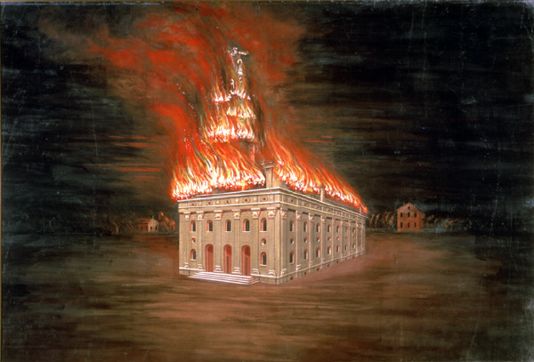 an illustration of the burning of the Nauvoo Temple.